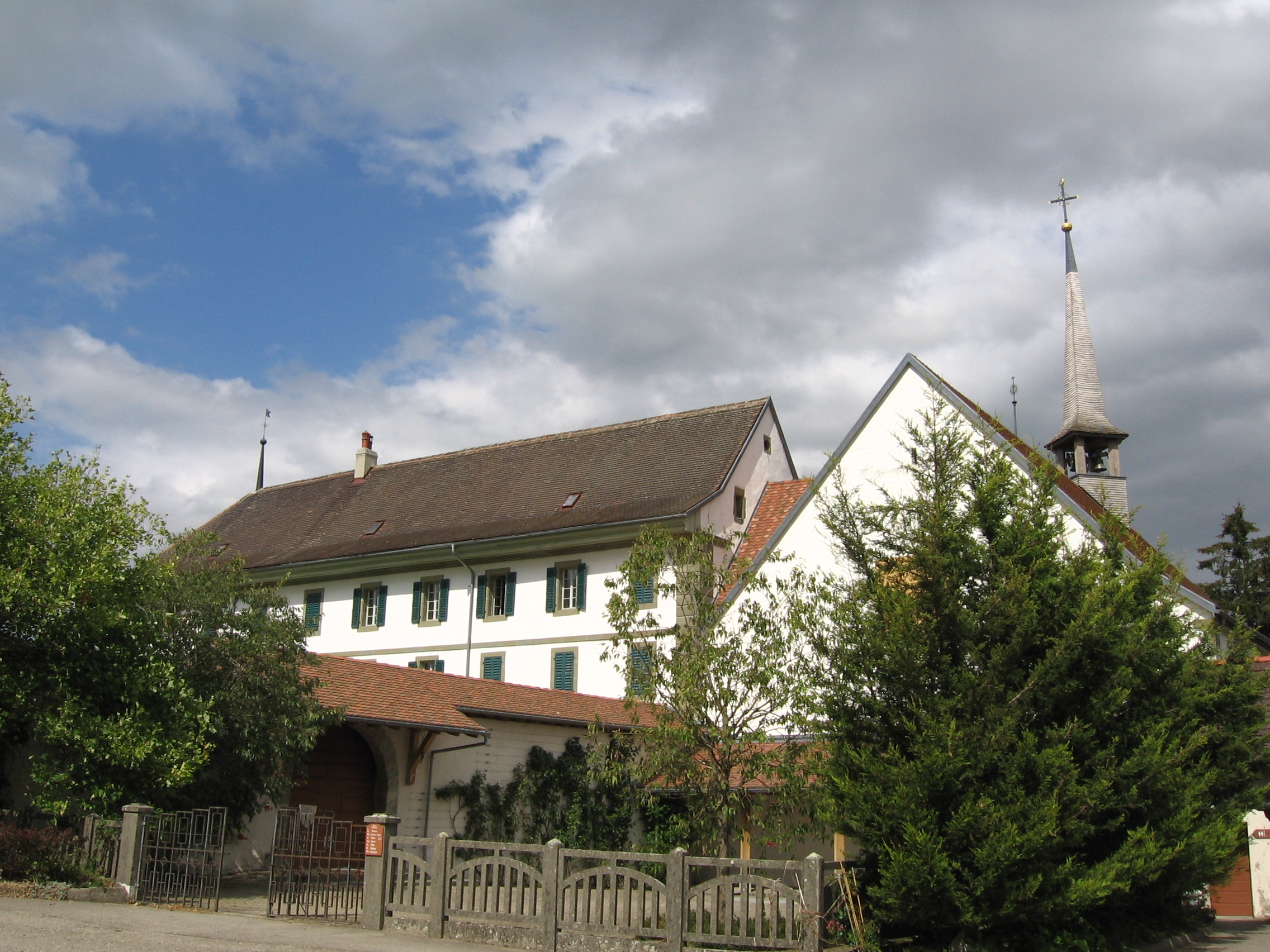 Abbaye de moniales cisterciennes de la Fille-Dieu, à Romont, près de Fribourg, en Suisse.